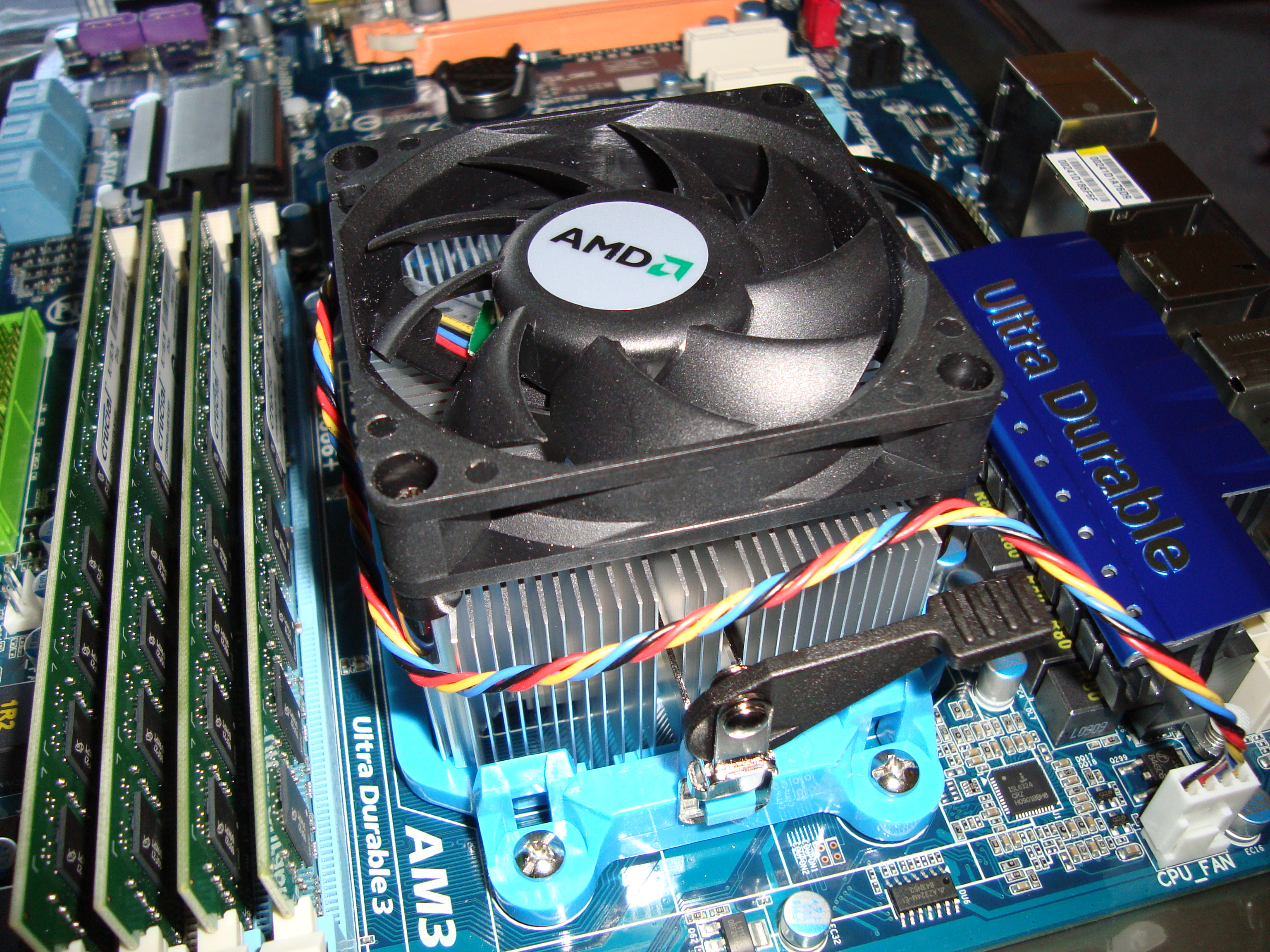 A heat sink for an AMD Phenom central processing unit (CPU) on an AM3 socket